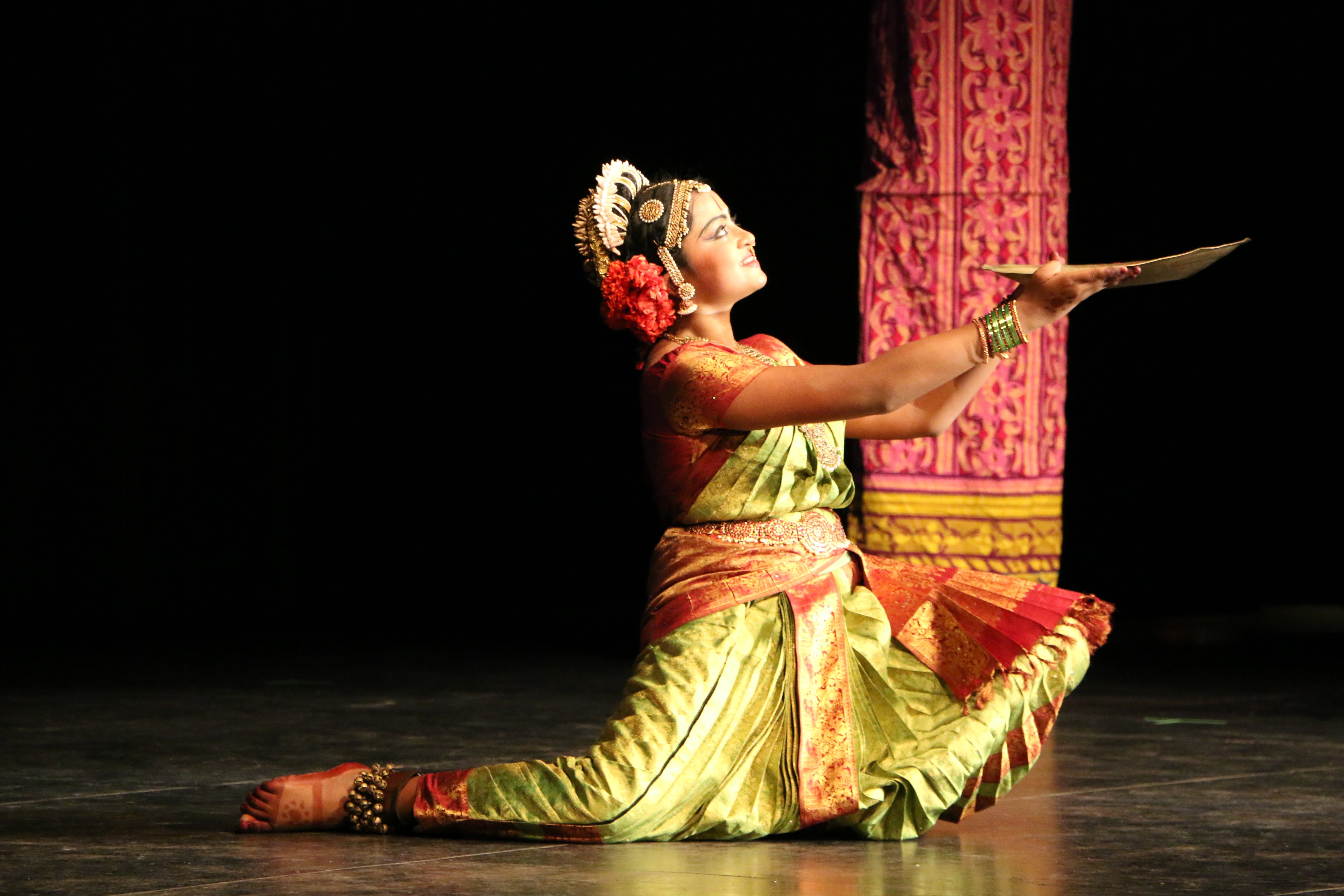 Tarangam